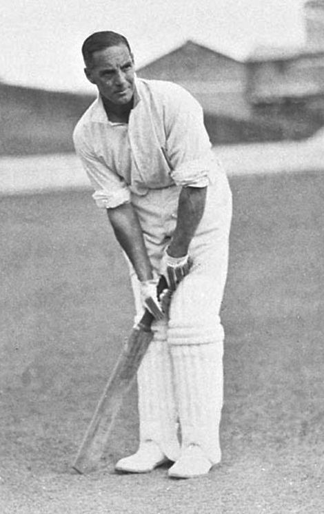 Study of Herbert Sutcliffe at the SCG